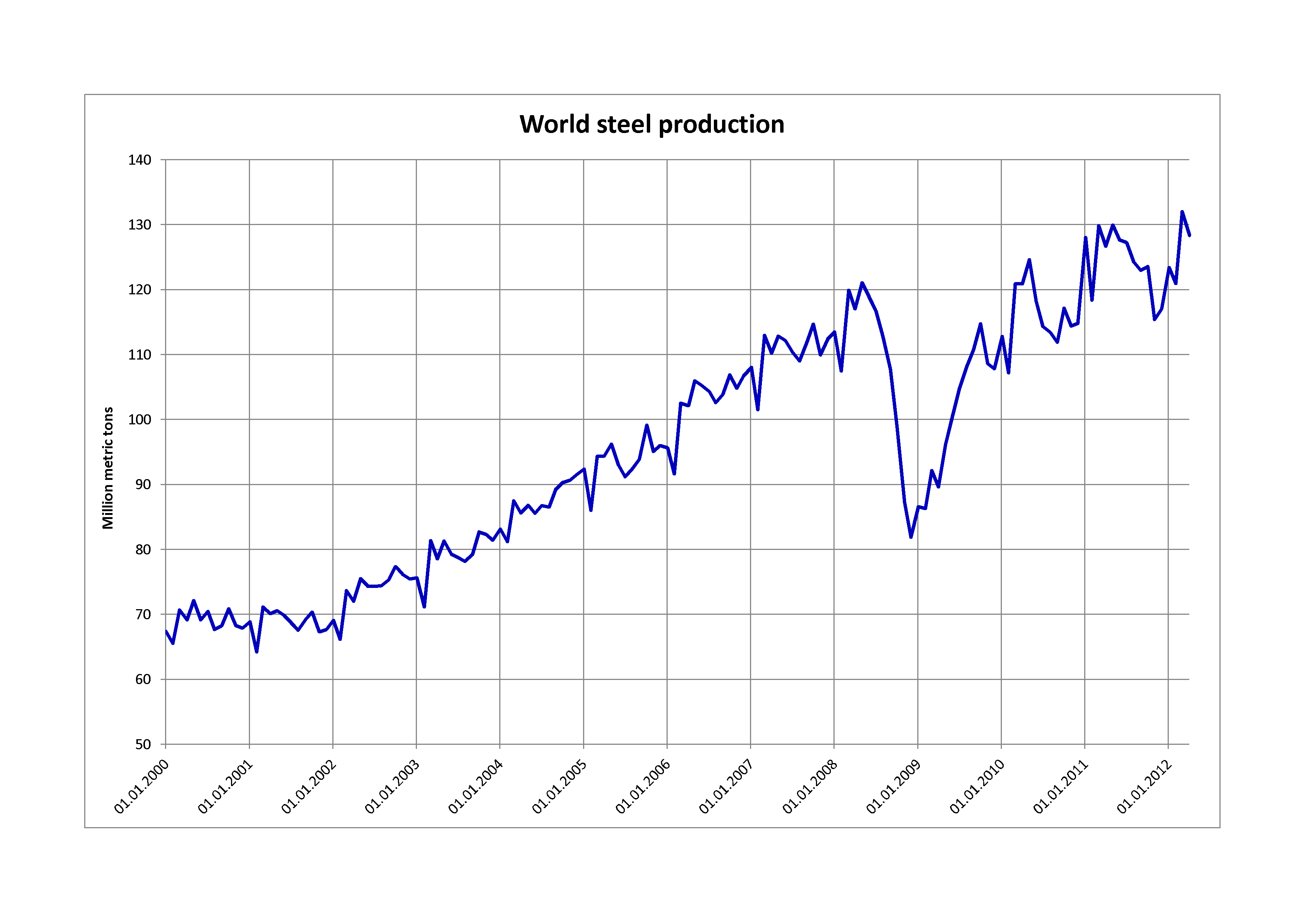 World steel production from January 2000 to April 2012 (monthly data in million metric tons)